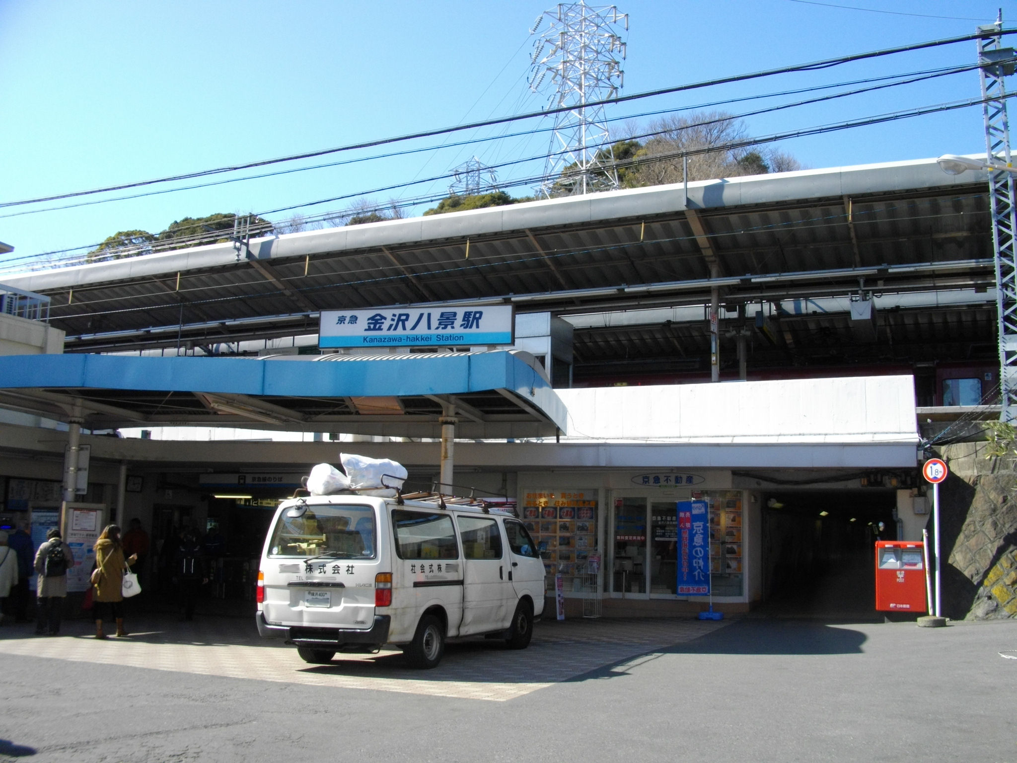 Keikyu Kanazawa-Hakkei Station